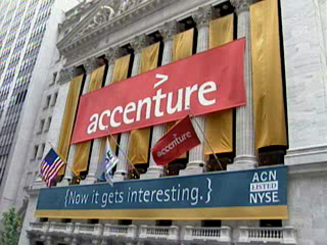 Accenture's banner hanging on New York Stock Exchange (NYSE) building for its initial public offering on 19 July 2001. Accenture's banner hanging on New York Stock Exchange (NYSE) building for its initial public offering on 19 July 2001.